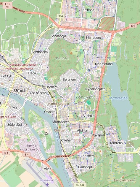 Map extracted from OpenStreetMap